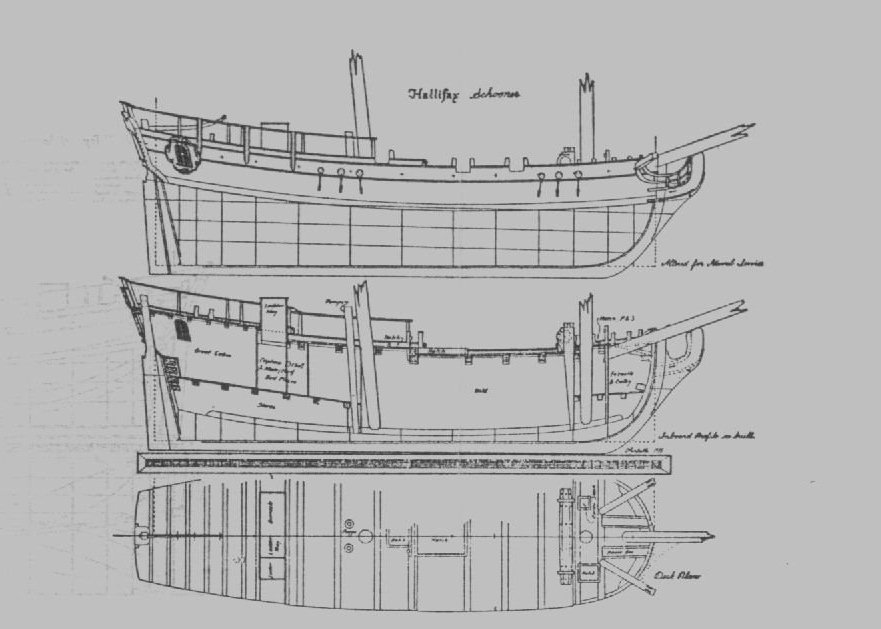 Plans of an 18th Century schooner of the Royal Navy